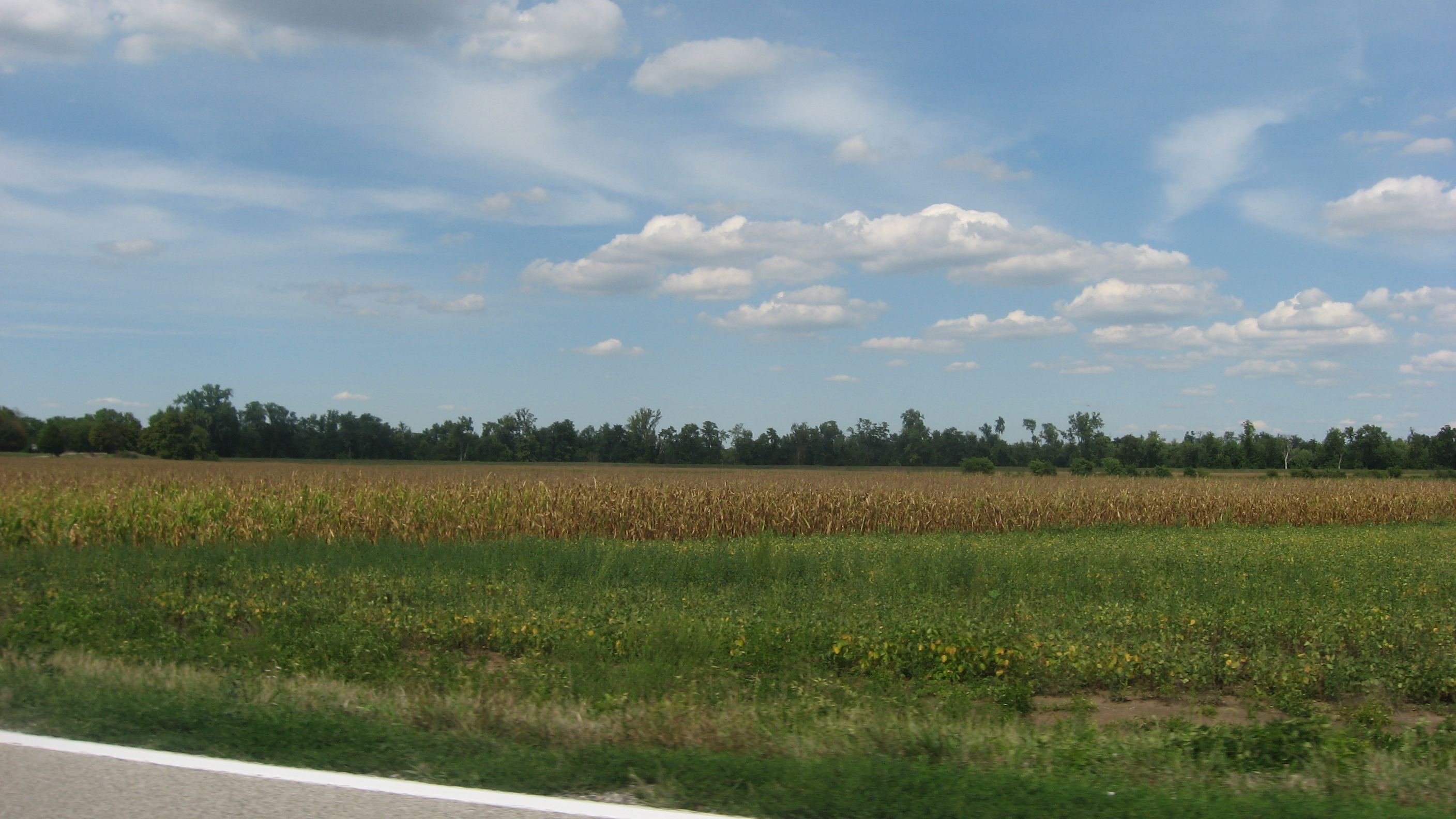 Looking northward to the Swan Island Site from Illinois Route 33. The site lies in the southeastern corner of Montgomery Township, Crawford County, Illinois, United States, although the photo is taken from northeastern Russell Township in Lawrence County. Swan Island was the location of a village of the Riverton culture of Native Americans during the Archaic period; today, it is an archaeological site and listed on the National Register of Historic Places.